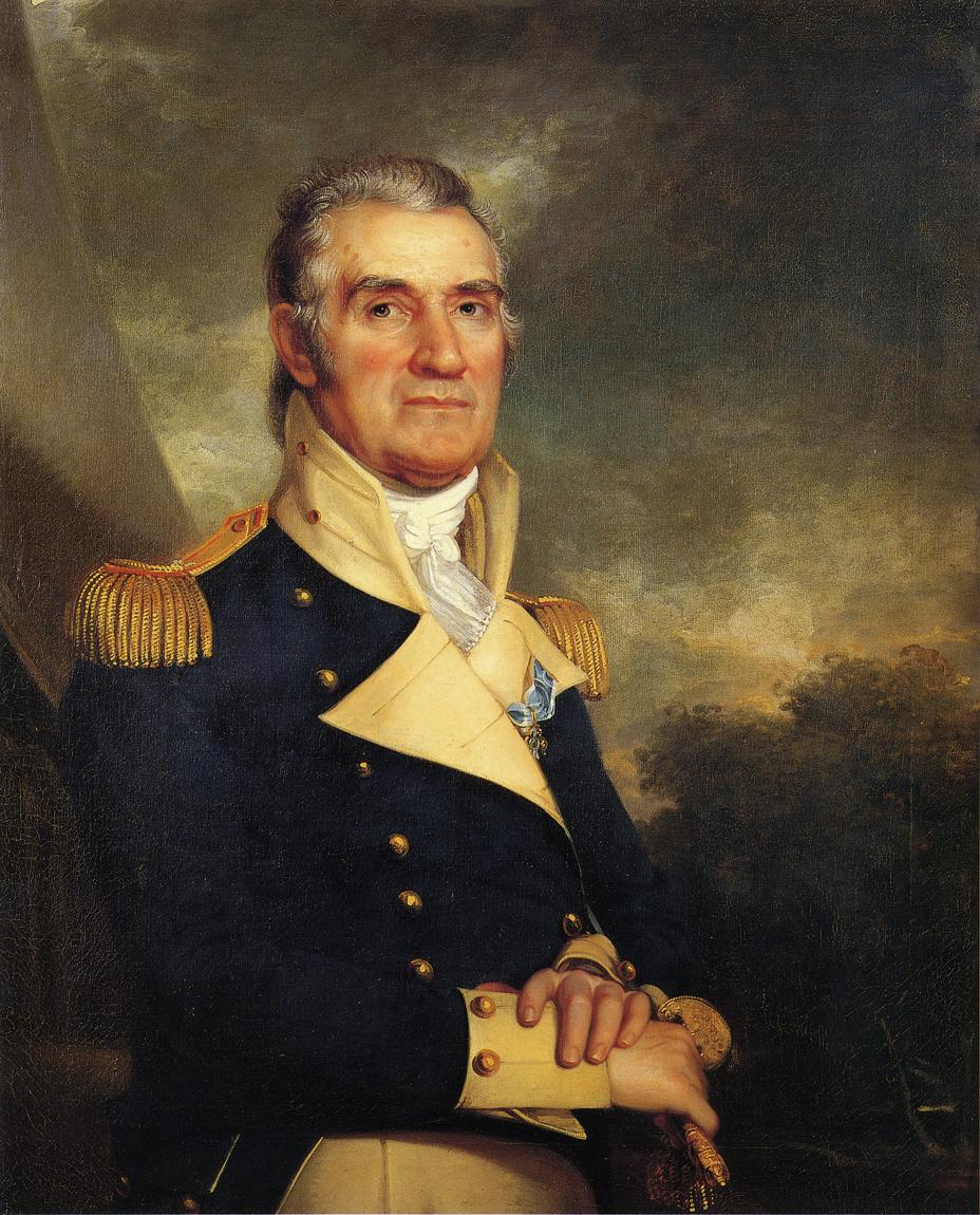 "General Samuel Smith," oil on canvas, by the American painter Rembrandt Peale. Courtesy of the Maryland Historical Society.